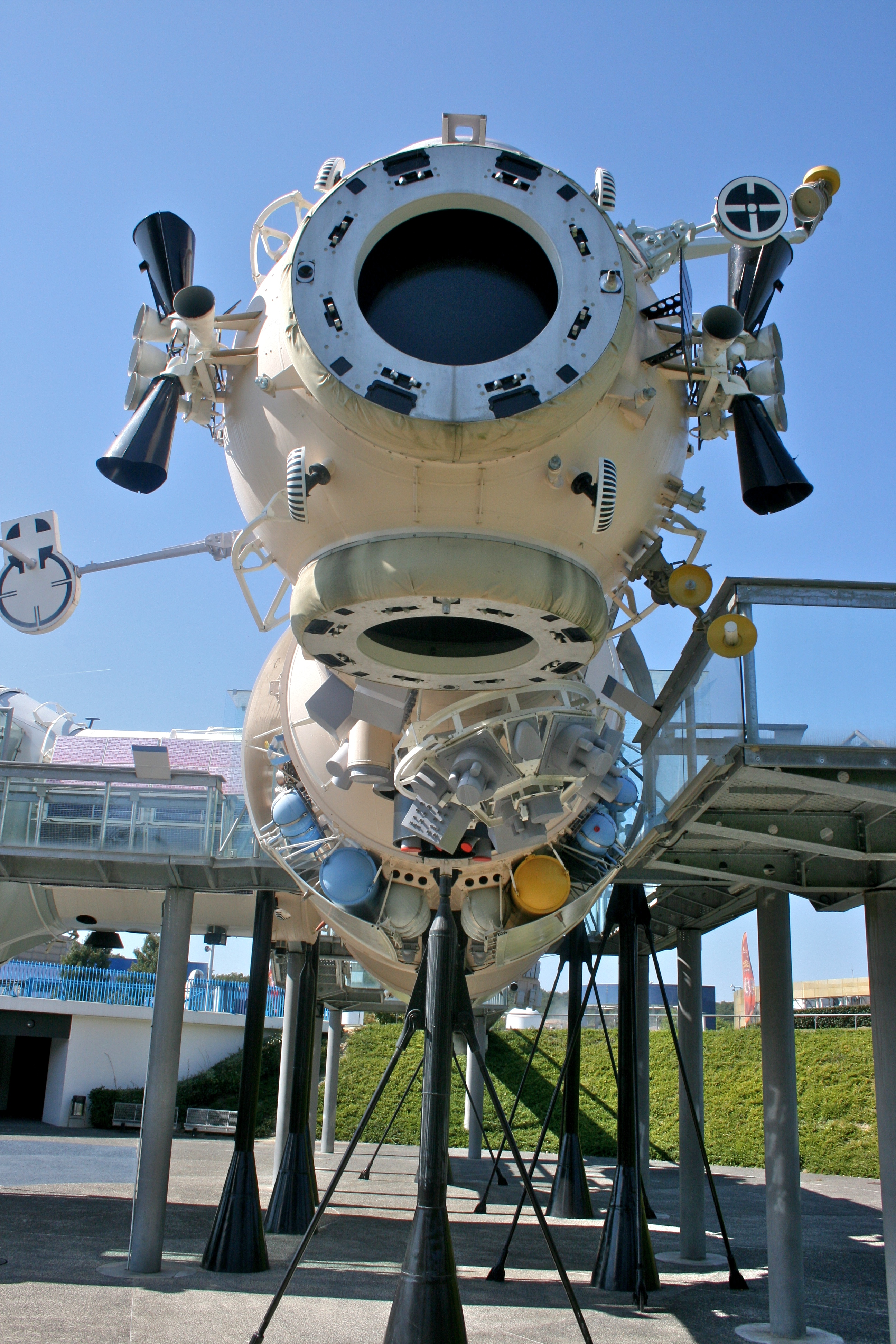 A replica of Mir at the Cite de l'Espace in Toulouse, France.